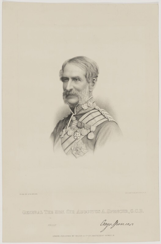 Drawing of General The Hon. Sir Augustus Almeric Spencer GCB (25 March 1807 – 28 August 1893), a British Army officer and a member of the Spencer family.